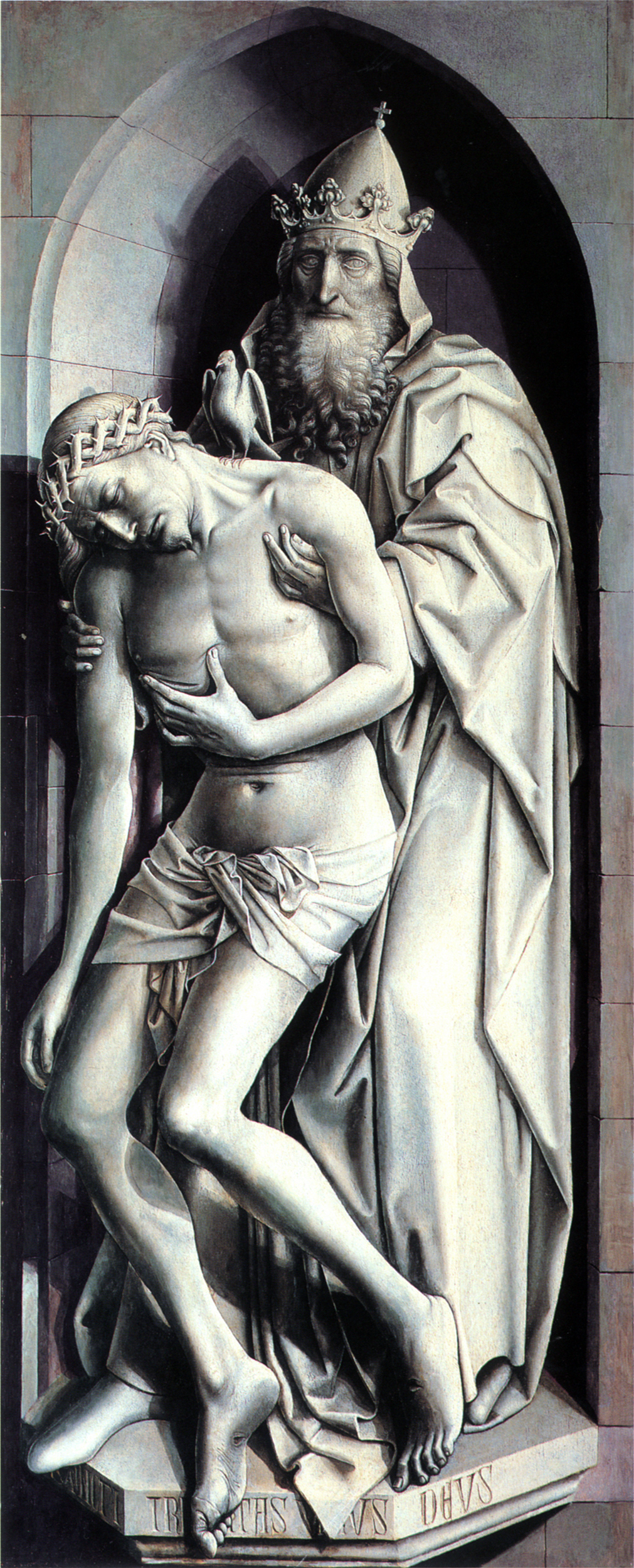 Flemalle Panels: Trinity of the Broken Body Robert Campin Oil on panel, 147.5 x 57.6 cm Frankfurt, Staedelsches Kunstinstitut